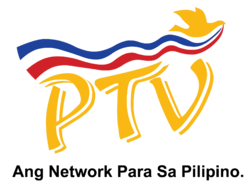 Logo of PTV in 1995